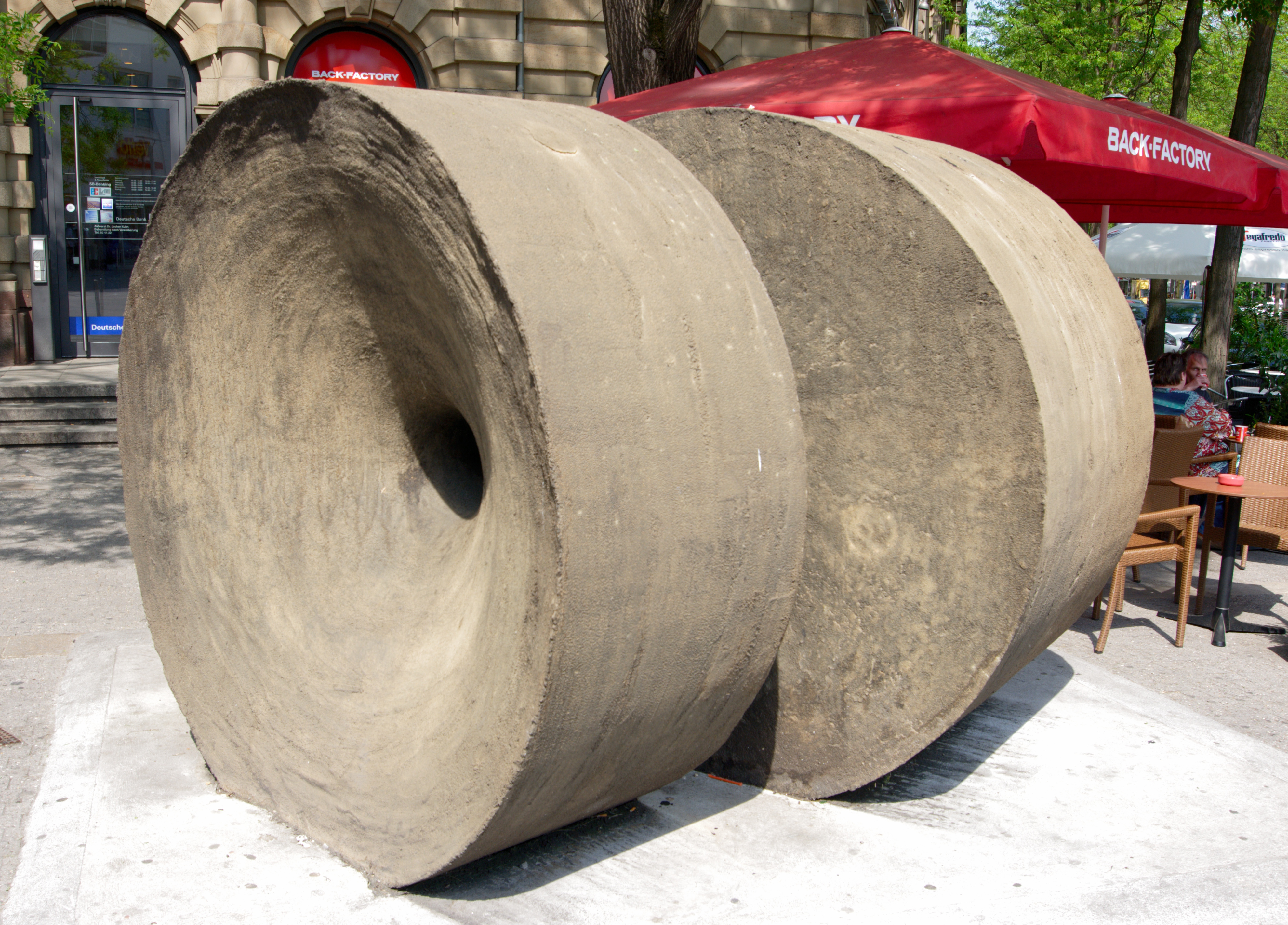 Zeitenräder (Time wheels) by Hedi Schwöbel, sculpture made of concrete and coffee grounds, opposite Ludwigsburg railway station, created in 2009, diameter of wheels about 2 meters